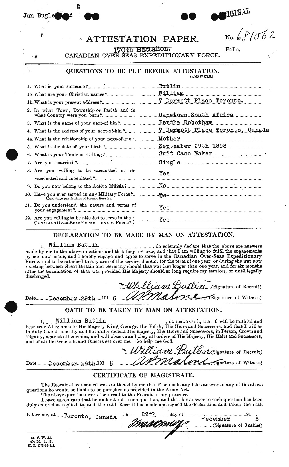 Front Page of Billy Butlin's Attestation Paper